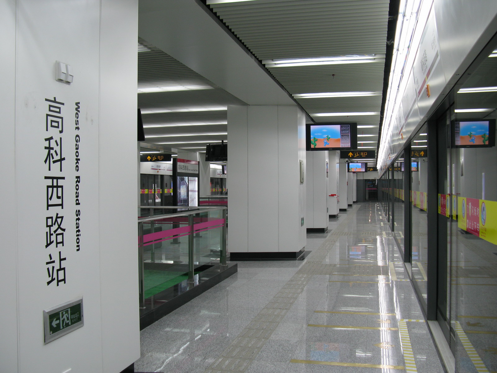 高科西路站 6号线月台 Line 6 Platform of Gaoke Road (W) Station